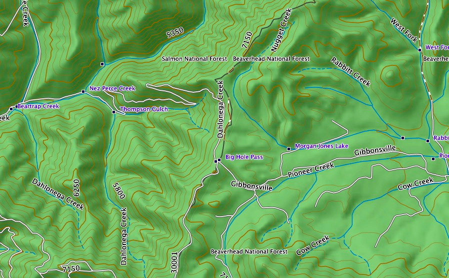 Location of Big Hole Pass